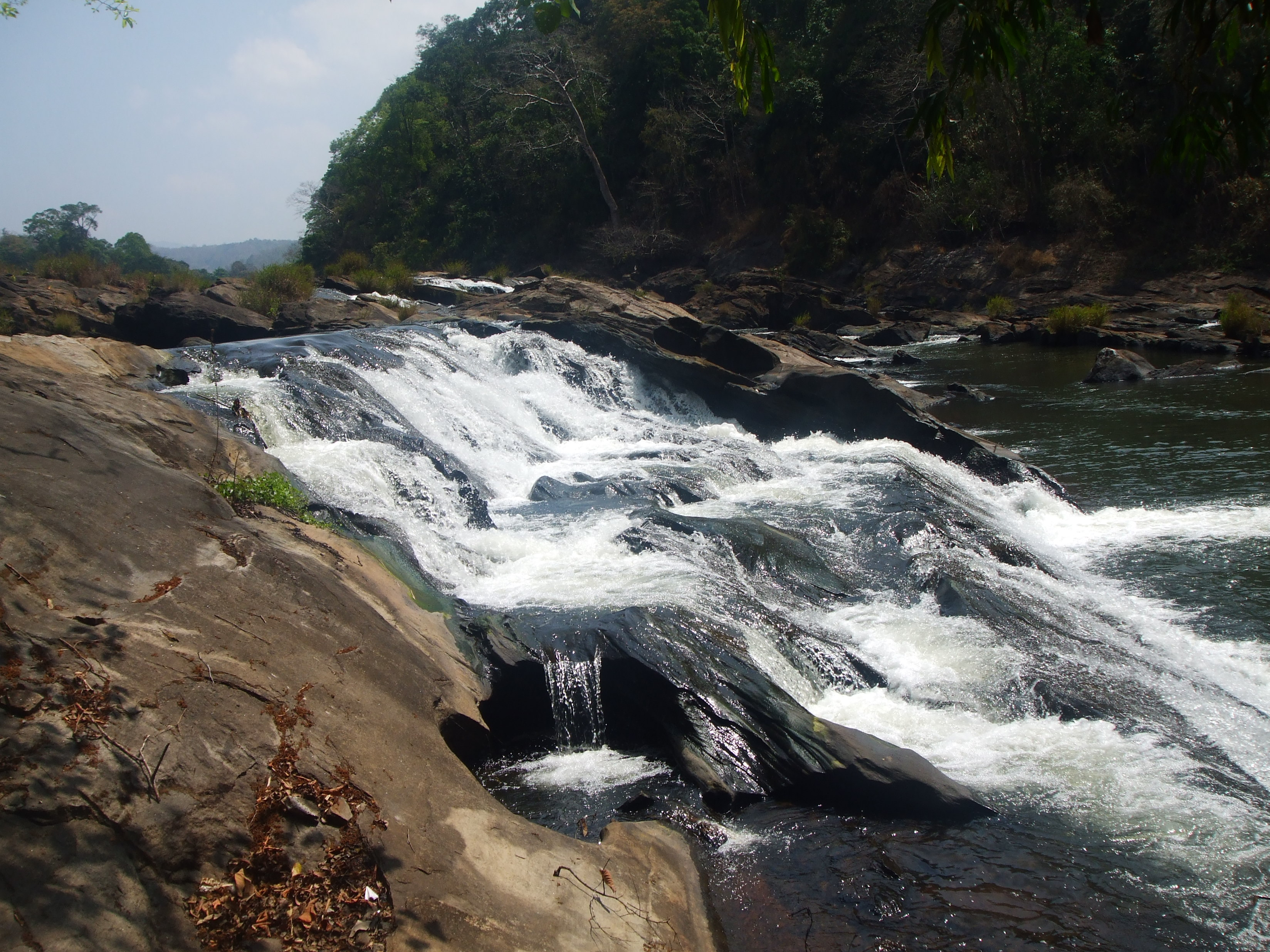 A close view of Vazhachal water fall, Kerala, India